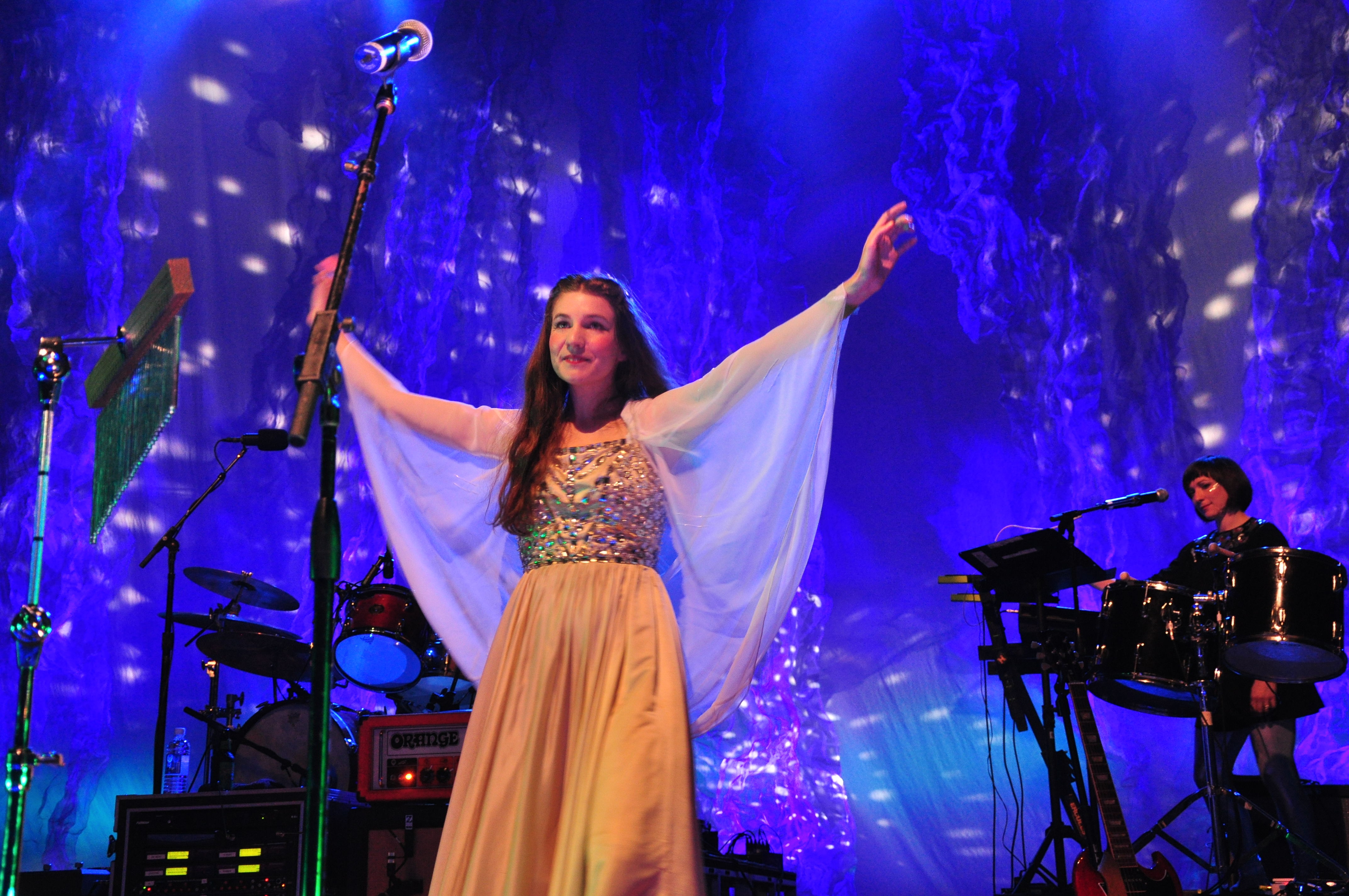 Becky Stark [1] [Rebecca Stark], founder of the musical group Lavender Diamond. Picture taken during her supporting role of The Decemberists [2] "Hazards of Love" concert set. Shara Worden [3] of My Brightest Diamond, in the background on keyboards